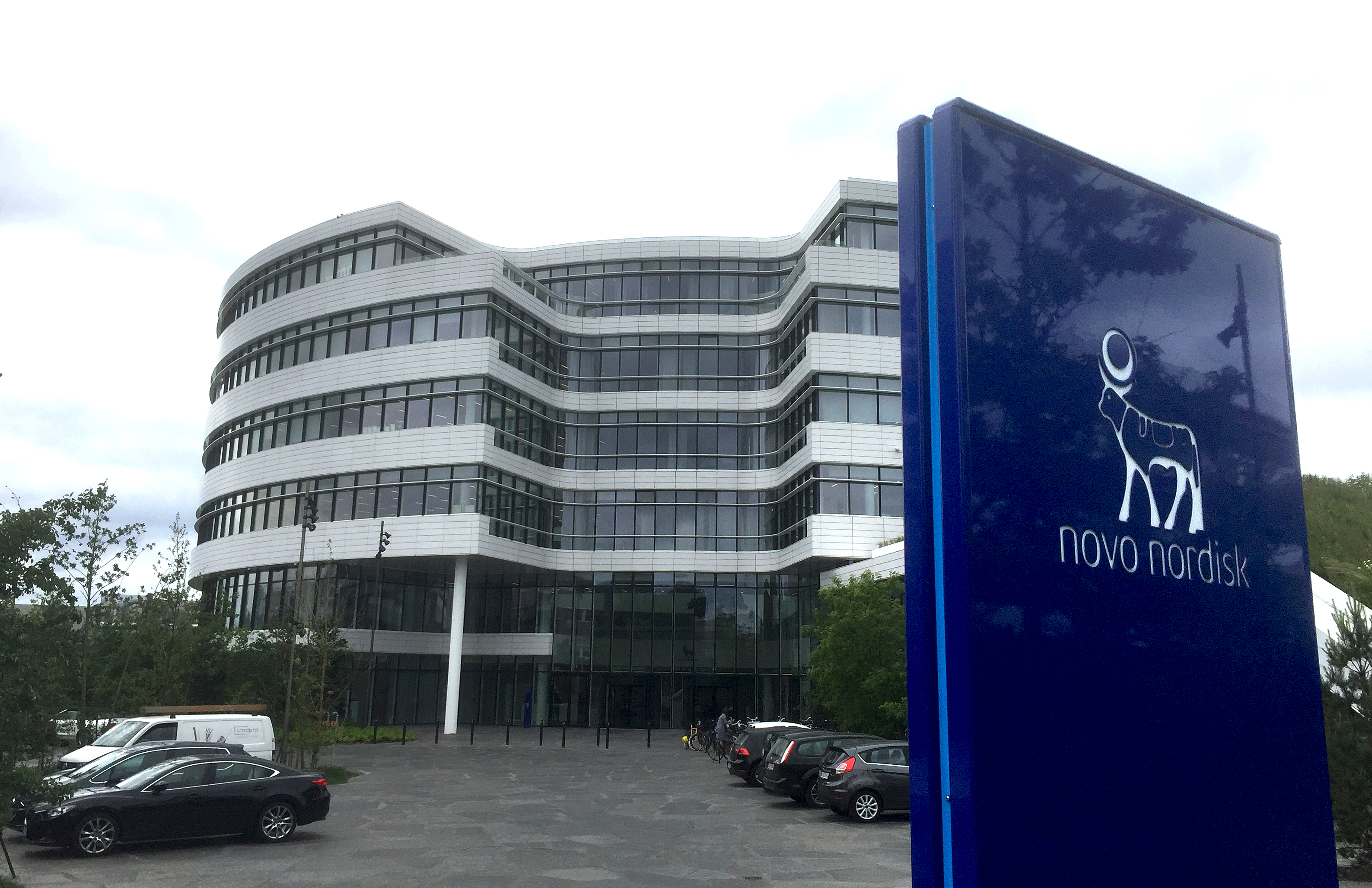 Headquarters building of Novo Nordisk in Bagsværd, Denmark.